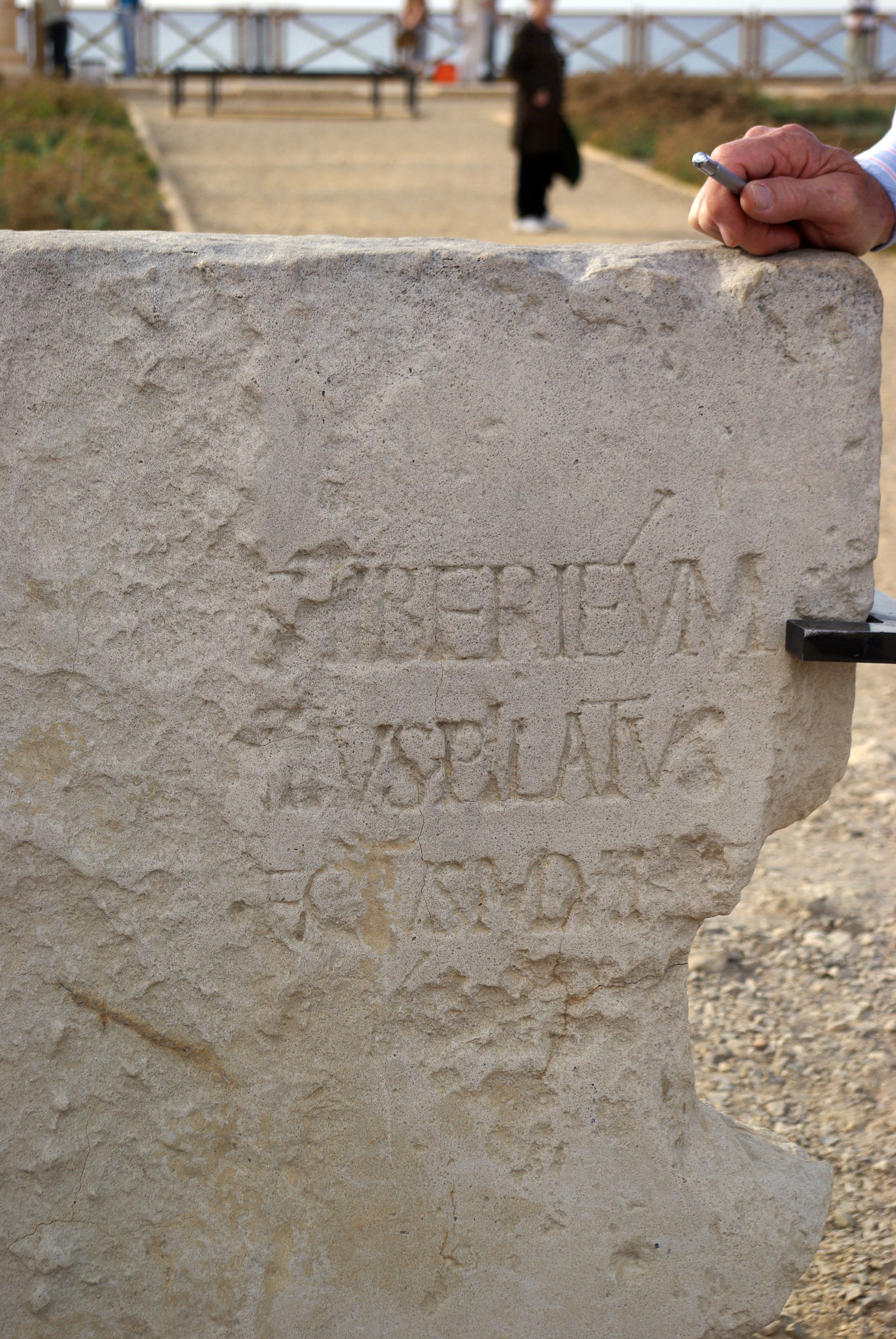 Caesarea maritima, Stone with engravement of the name of Pontius Pilatus 2nd Line: ...vs Pilatvs